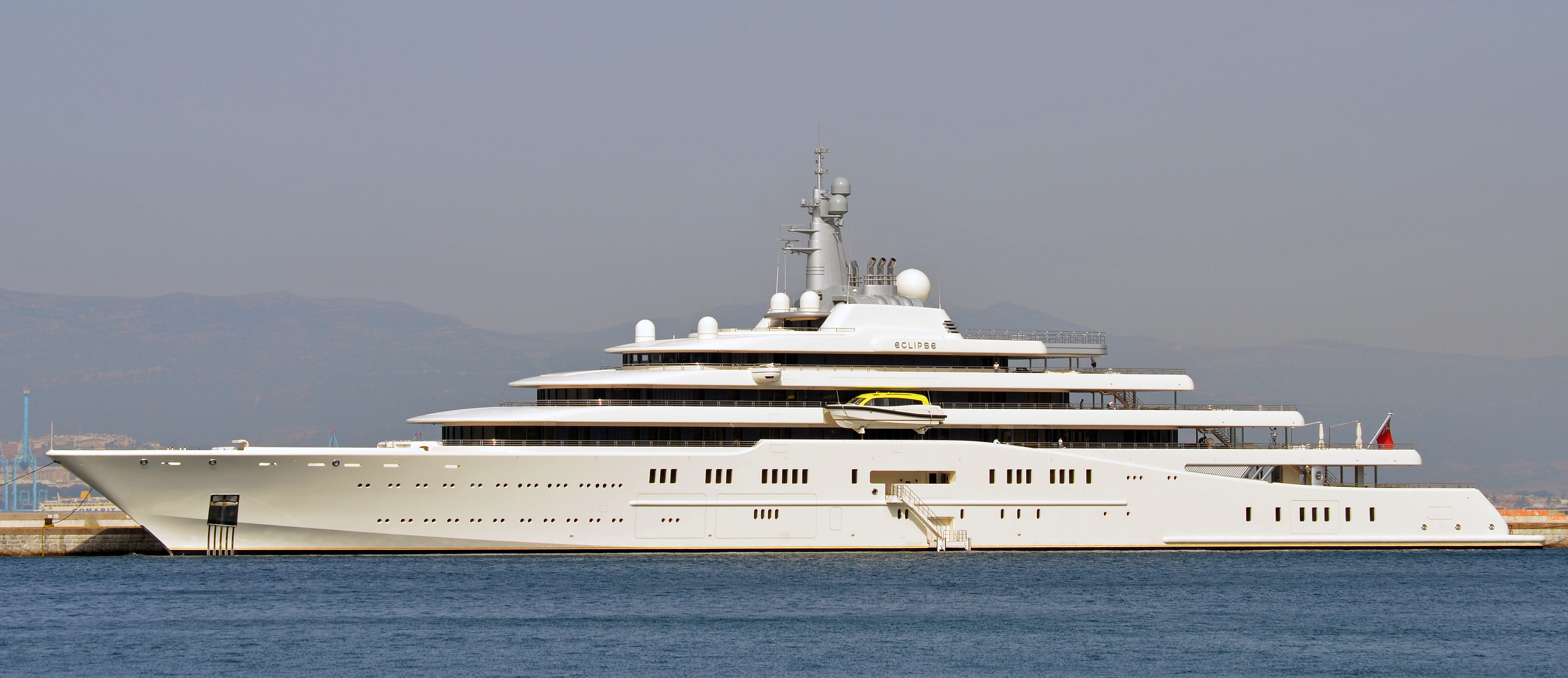 M/Y Eclipse is/was? the world's largest private yacht built by Blohm & Voss of Hamburg, Germany. Its exterior and interior are designed by Terence Disdale Design and its naval architect is Francis Design. M/Y Eclipse is also equipped with a three-man leisure submarine, two swimming pools, intruder detection systems, accommodation for three helicopters, a German-built missile defense system and bullet-proof glass and armor plating in the master suite.